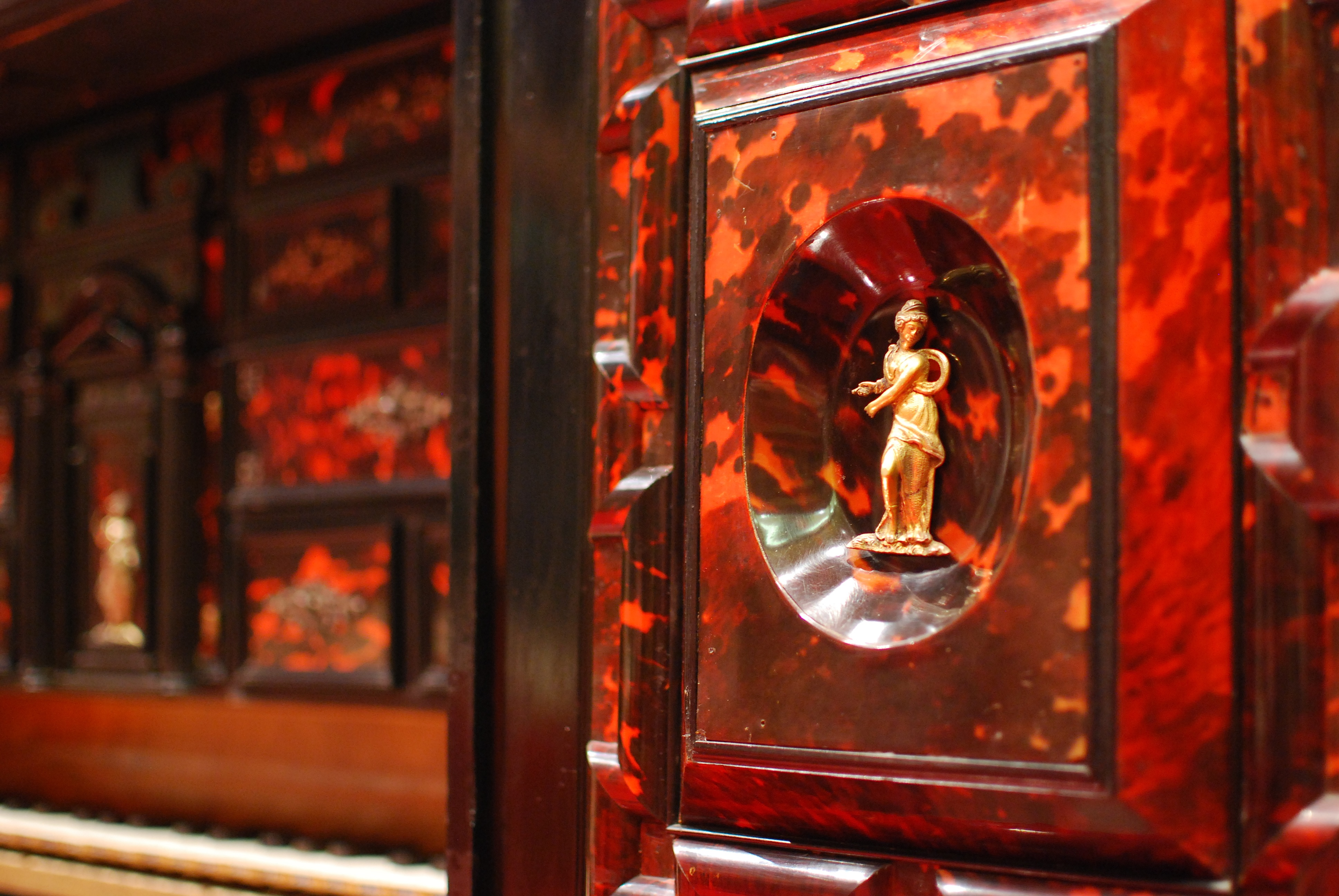 Detail of the Claviorganum by Lorenz Hauslaib, Nuremberg. ca. 1590. Museu de la Música de Barcelona (MDMB 821).